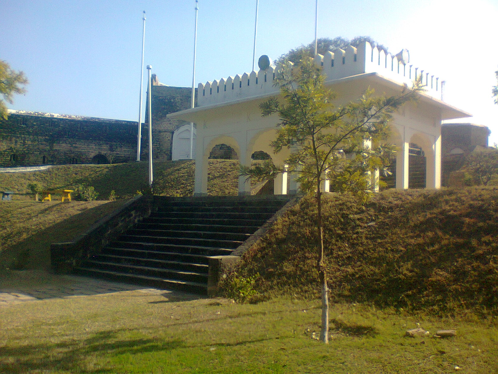 Mangla Fort This is a photo of a monument in Pakistan identified as the AJK-15